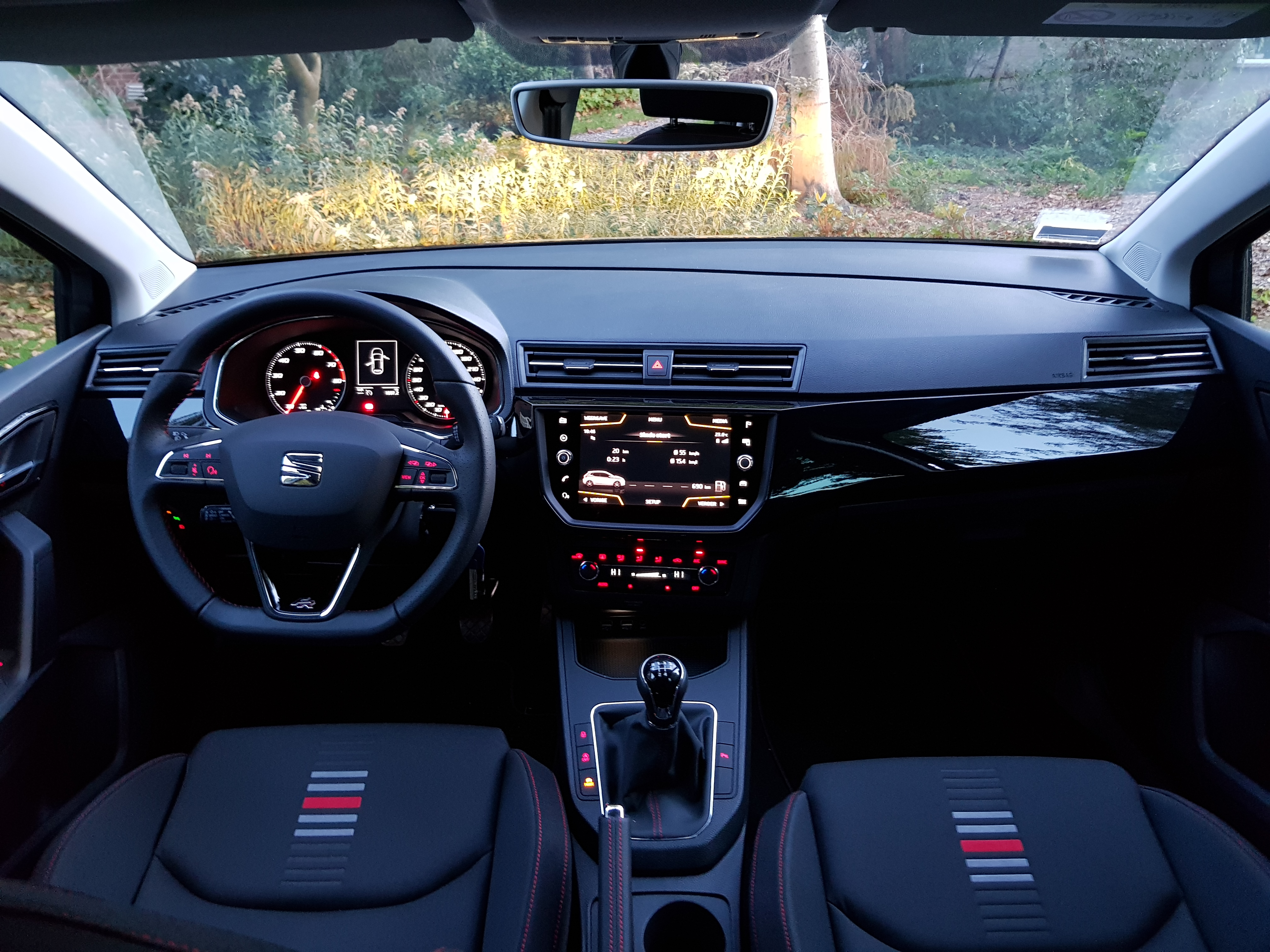 The interior of a 2018 Seat Ibiza FR Business intense (2018) as sold in the Netherlands